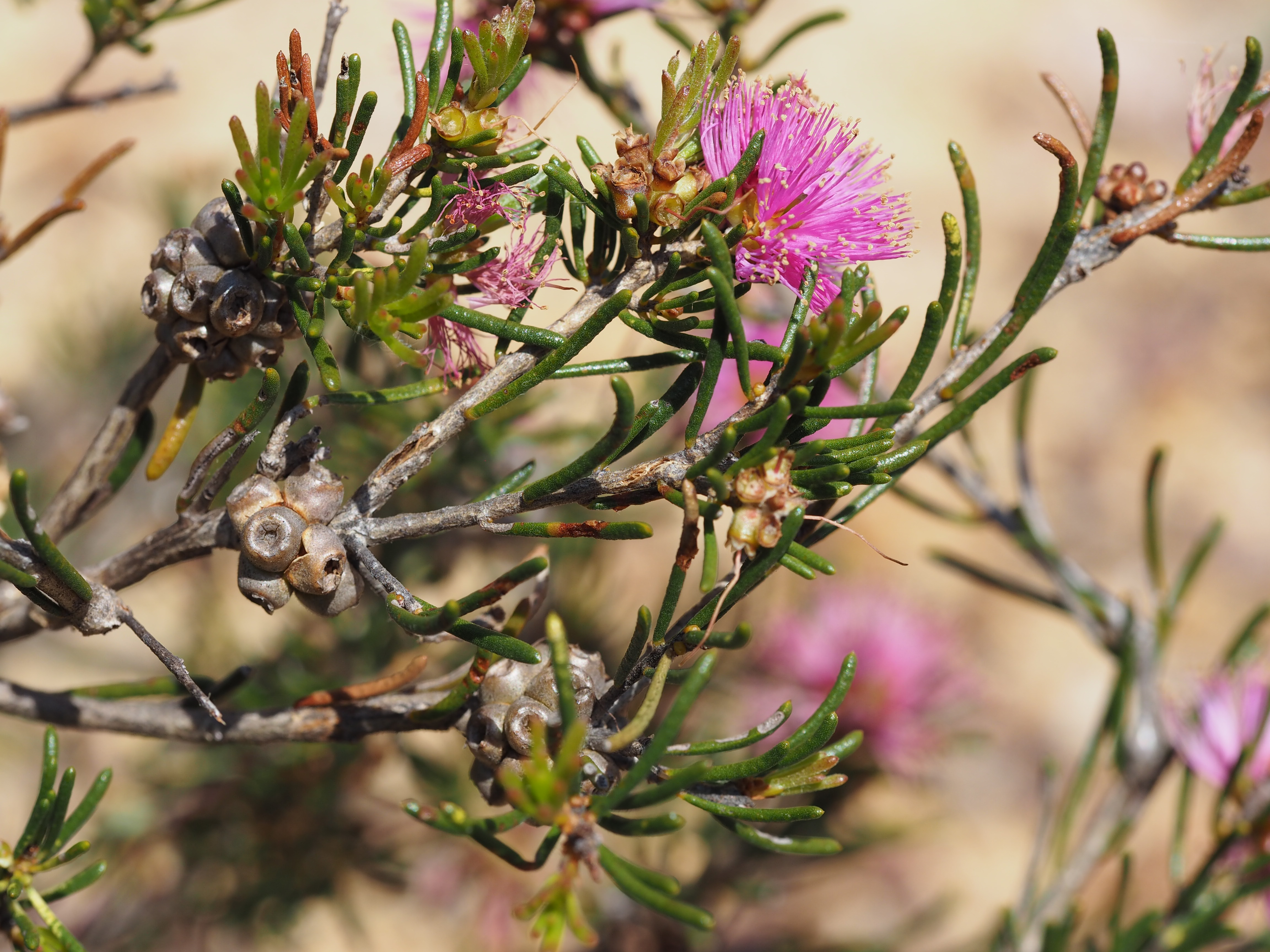 Melaleuca parviceps growing in the Kalamunda National Park.